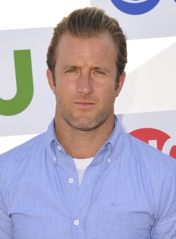 Scott Caan at CBS Upfronts